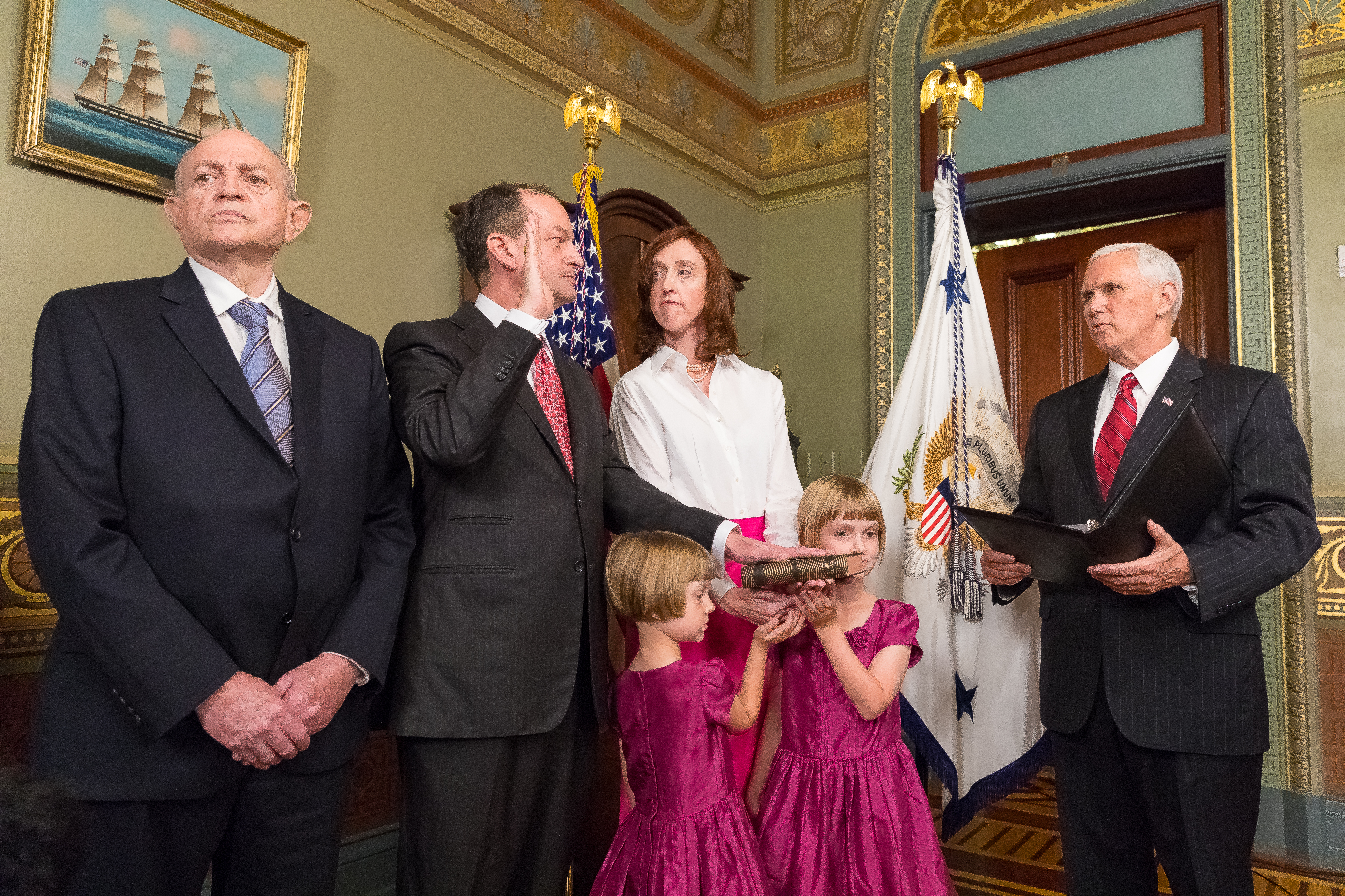 U.S. Secretary of Labor R. Alexander Acosta Official White house Swearing in Ceremony hosted by Vice President Mike Pence.